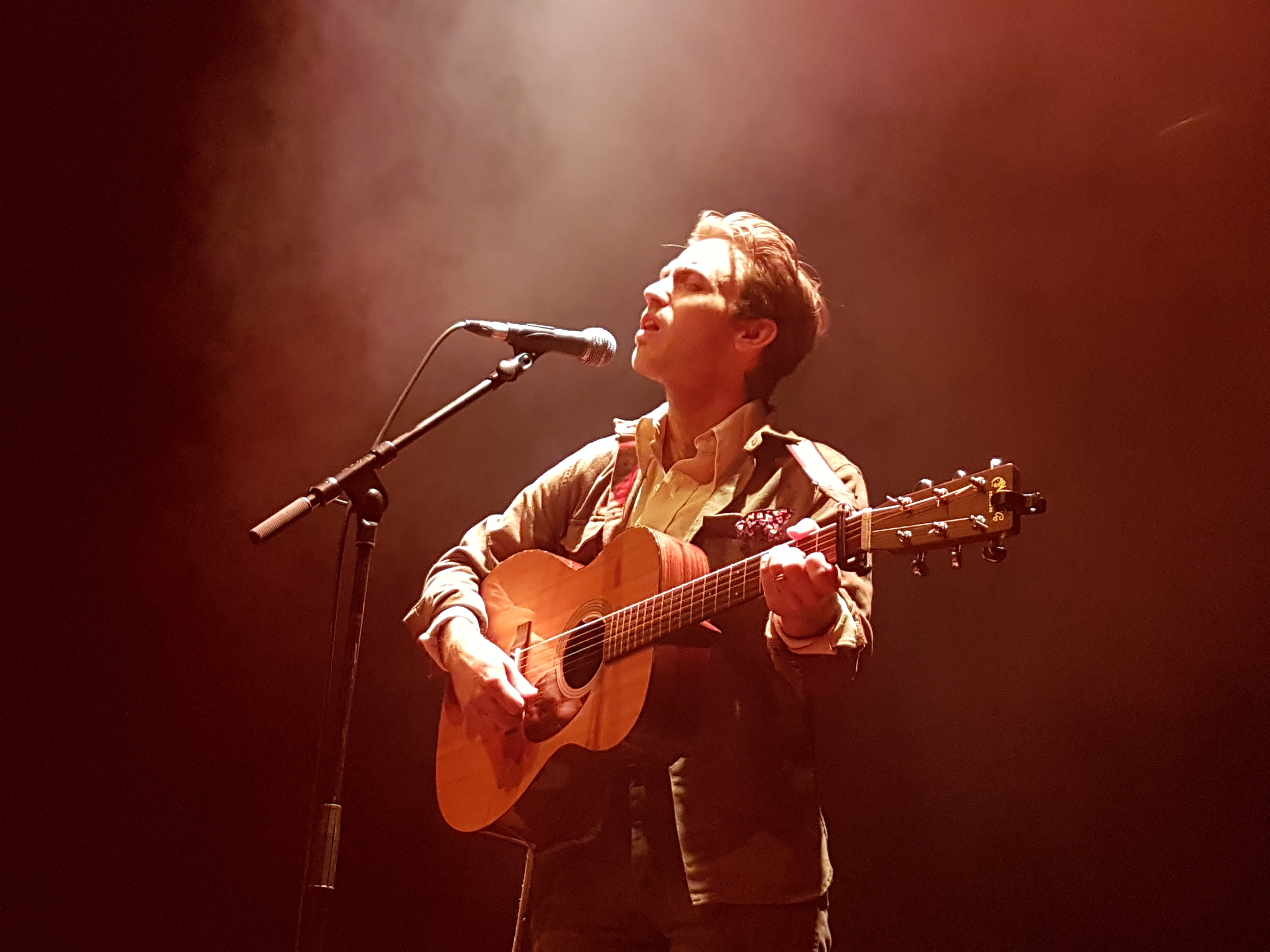 Andrew Combs performing at the Heartland Festival in Hengelo